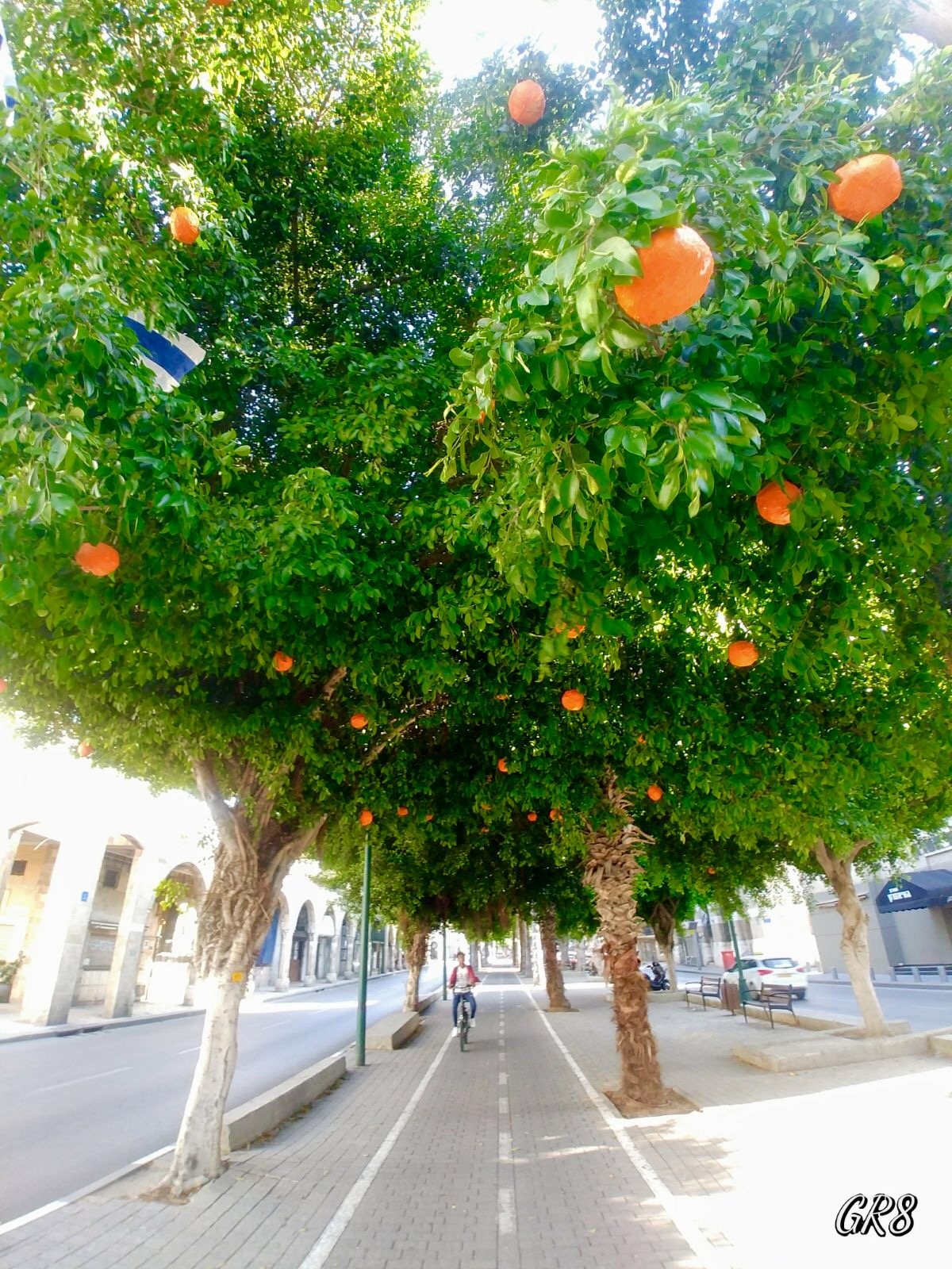 Jaffa Oranges Artwork For the 70’th Israel’s Independence day celebrations.2018